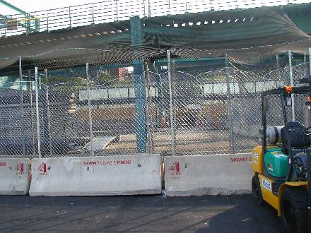 The First Amendment zone at the 2004 Democratic Nation convention Picture taken July 21, 2004. from License: GFDL following permission request From: "Mark ***********" Date: 2004/08/03 Tue PM 09:31:19 CDT To: Subject: Picture permission request Dear Mr. Pettus I'm an administrator at Wikipedia ( Wikipedia is a volunteer (non-profit) project to build an encyclopedia to which anyone can contribute. Most of it is licensed under the GFDL ( which is "share-and-share alike" - it lets anyone freely copy our information with very few strings attached. On your website, you have a pair of pictures of a free speech zone ( and I'd like your permission to add those pictures to Wikipedia's article on Free speech zones ( under the terms of the GFDL. I think it would be a good addition to the article. --Mark ********** Wikipedia Administrator Dear Mark: Thank you for asking. I appreciate the conisderation. You have my permission to use the two pictures identified below. My best wishes, Parker